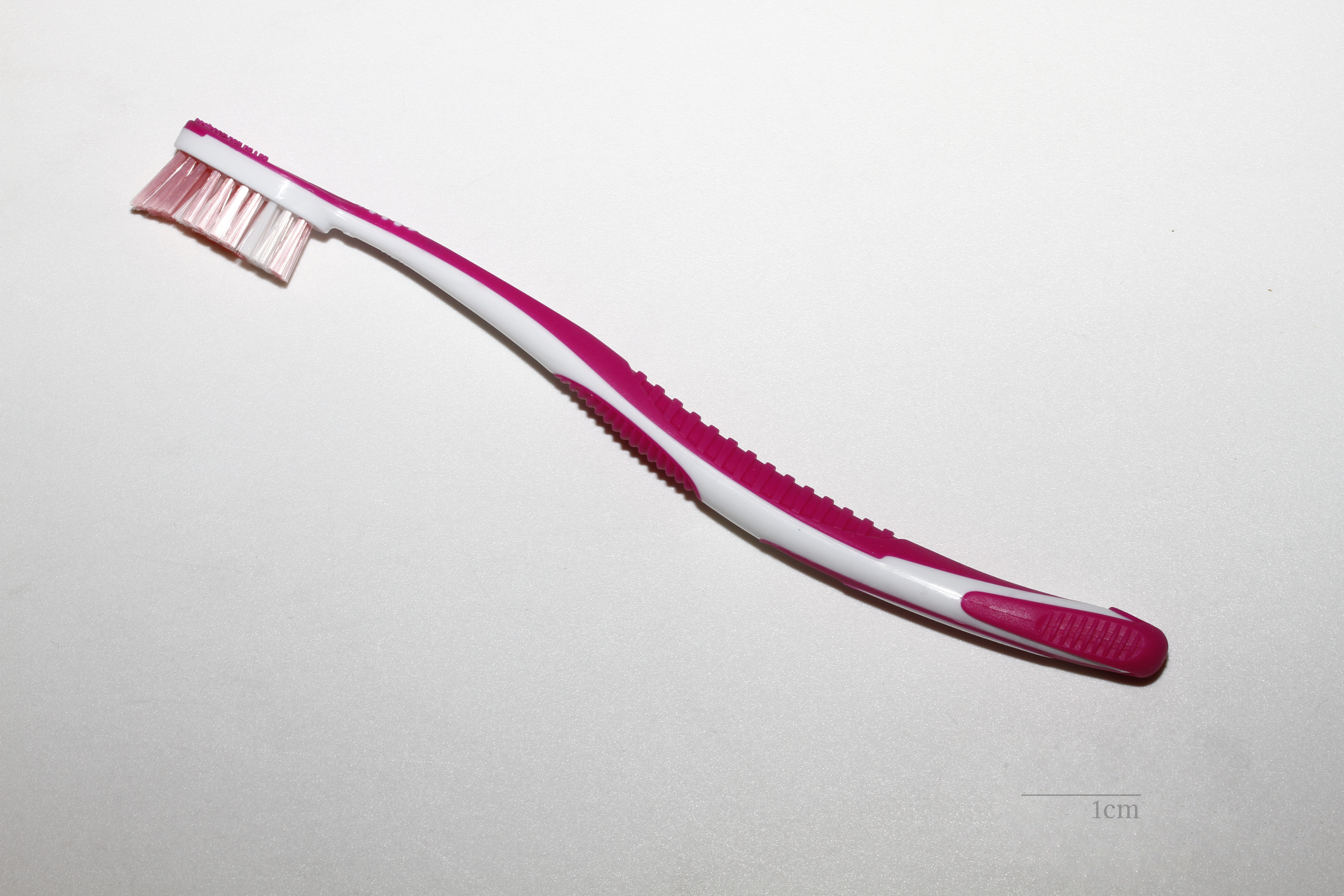 Pink toothbrush